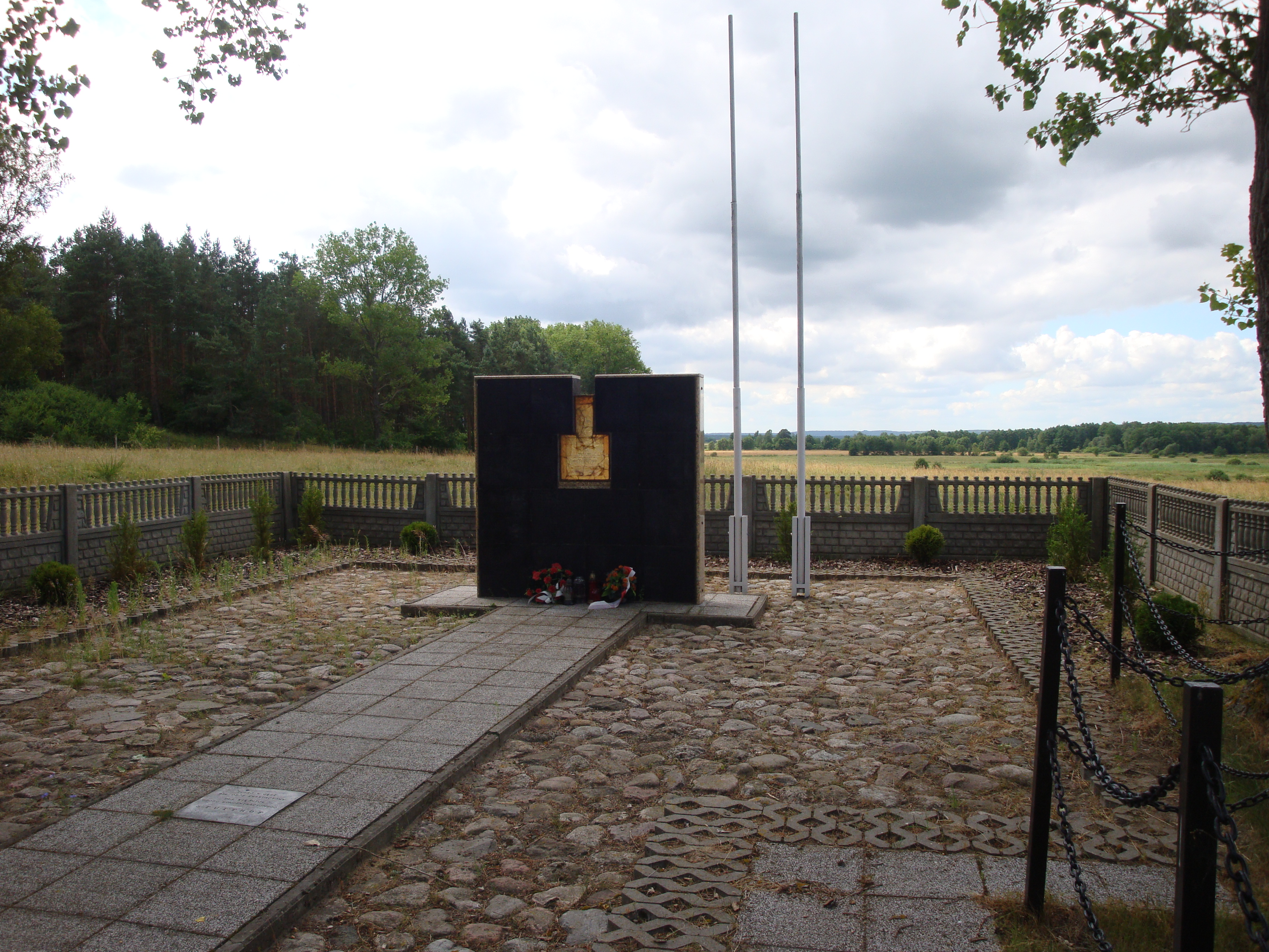 Gęś-village in pomeranian voivodeship, Poland. Monument to memorize victims of german nazi evacuation camp for prisoners of Stuthoff